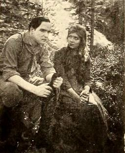 Still from the American drama film The Wolf (1919) with Earle Williams and Jane Novak, page 1629 of the August 23, 1919 Motion Picture News.